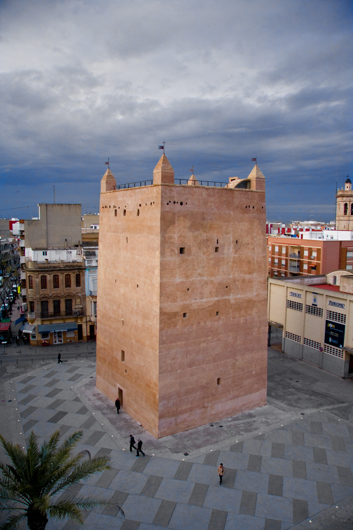 tower Torrente